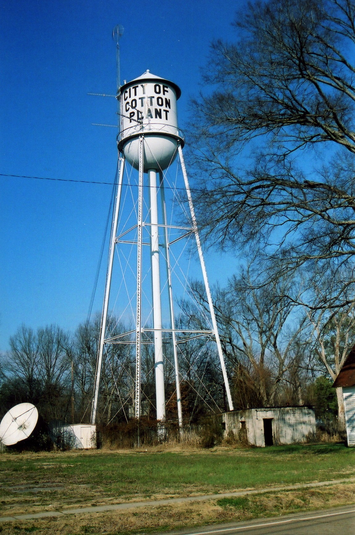 Cotton Plant Arkansas. Water tower on a non-overcast winter day. Seems to be leaning a bit from this angle. The small building at the lower right was, for many years, the city jail. It was a dungeon in the strictest of terms. Most held here, were only held as long as it took to sober up. True "bad guys" occasionally passed threw here on their way to a real "hell on earth", the Arkansas prison system. The parabolic disc on the left is what is left of a "get rich quick" cable system that folded in the late seventies.